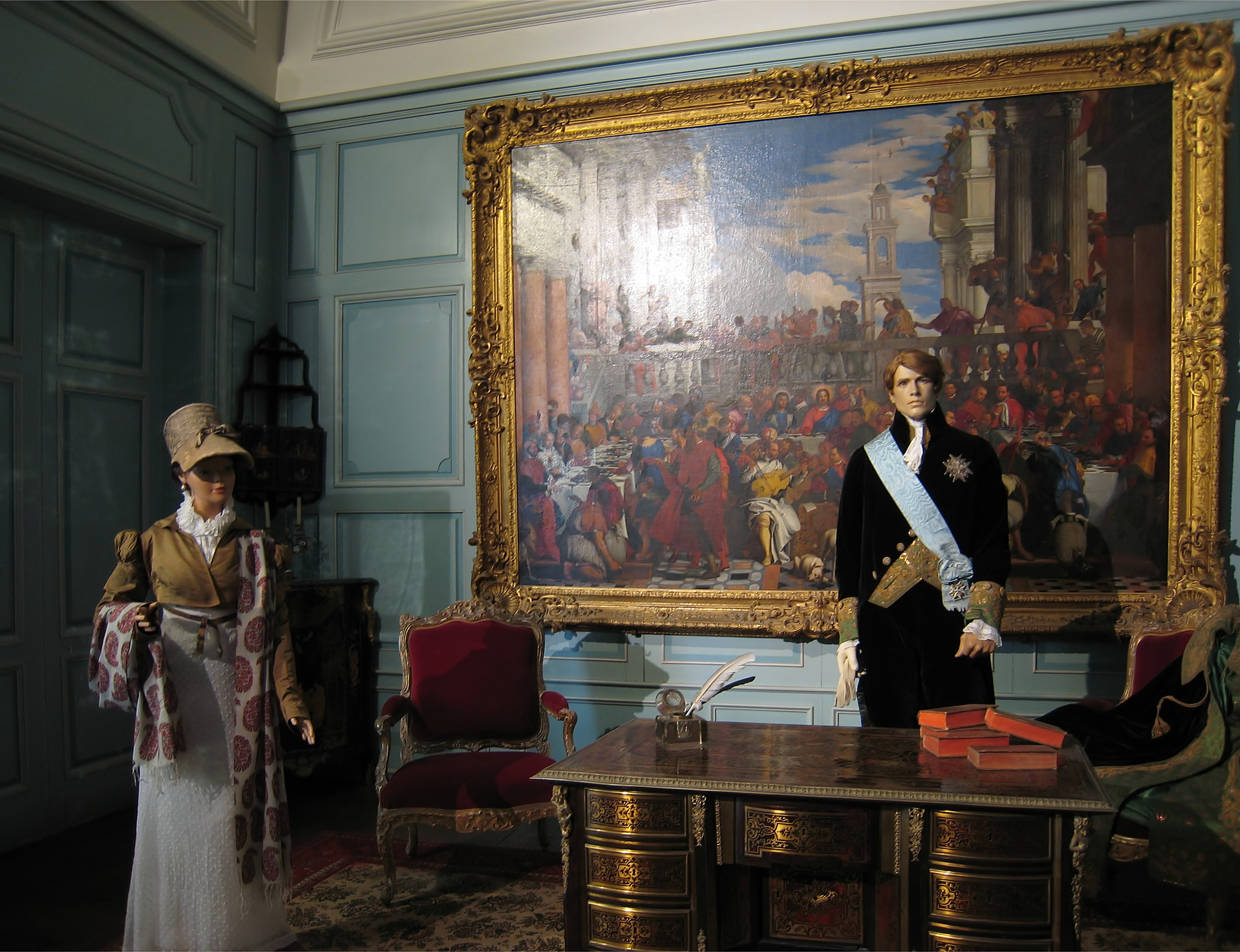 The Château d'Ussé is a château of the french Loire Valley in Rigny-Ussé; antechamber with a writing desk made by the cabinet maker André-Charles Boulle